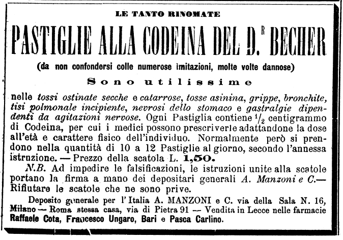 Ad of "pastiglie alla Codeina", medicament